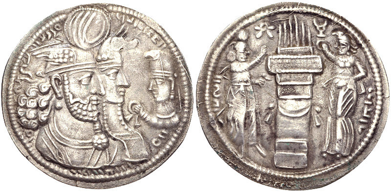 Bahram II, with his Queen Shapurdukhtak and prince Bahram Sakanshah.